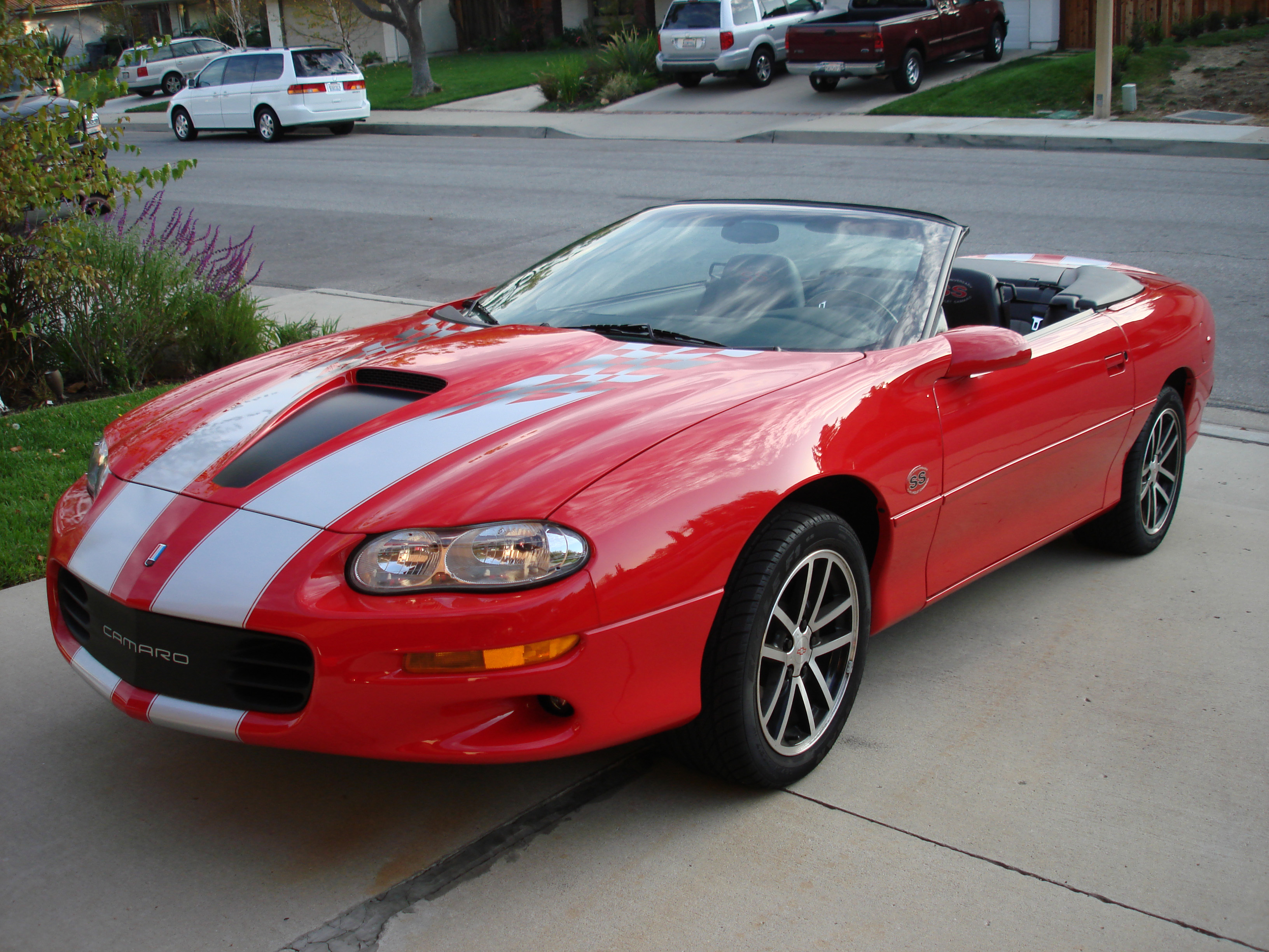 2002 Chevrolet Camaro SS 35th Anniversary edition. Camera used was a Sony Cyber-shot DSC-W100.